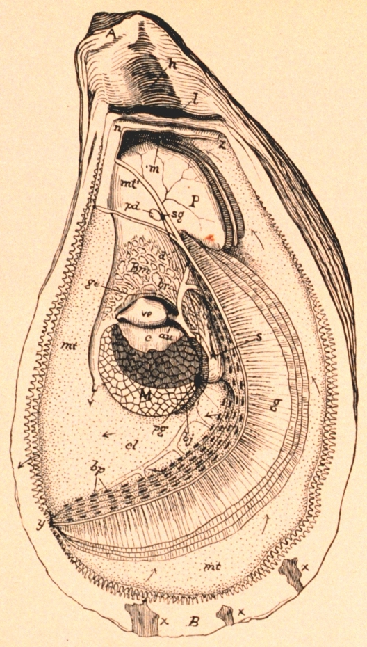 Drawing of oyster anatomy. Description is at